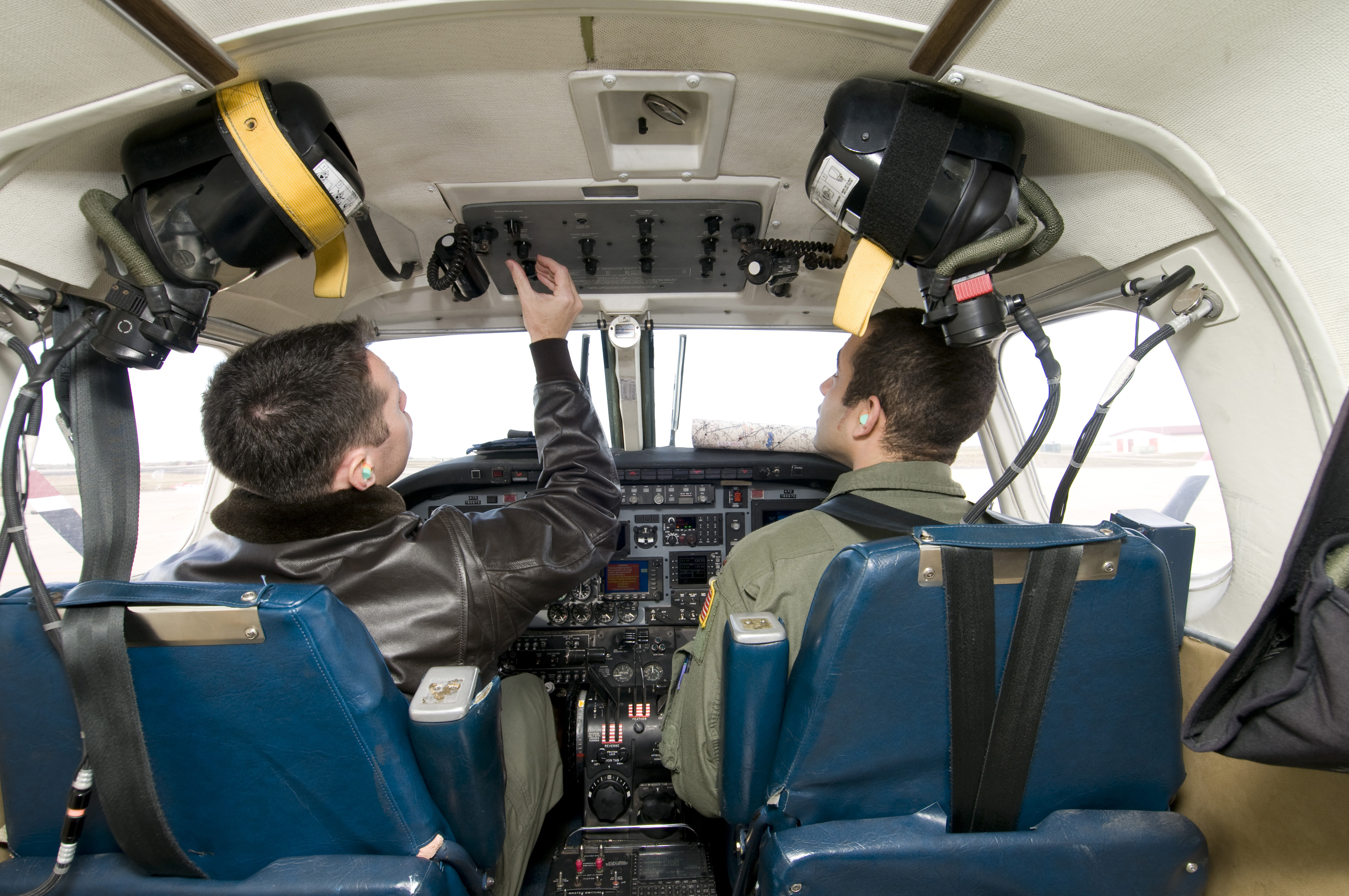 CORPUS CHRISTI, Texas (Jan. 12, 2012) Marine Corps Capt. Chris Latimer, left, an instructor pilot for Training Squadron (VT) 31, and 2nd Lt Marvin Smith, a student USAF aviator, conduct pre-operation procedures before a training flight in a T-44C Pegasus aircraft. (U.S. Navy Photo by Richard Stewart/Released)